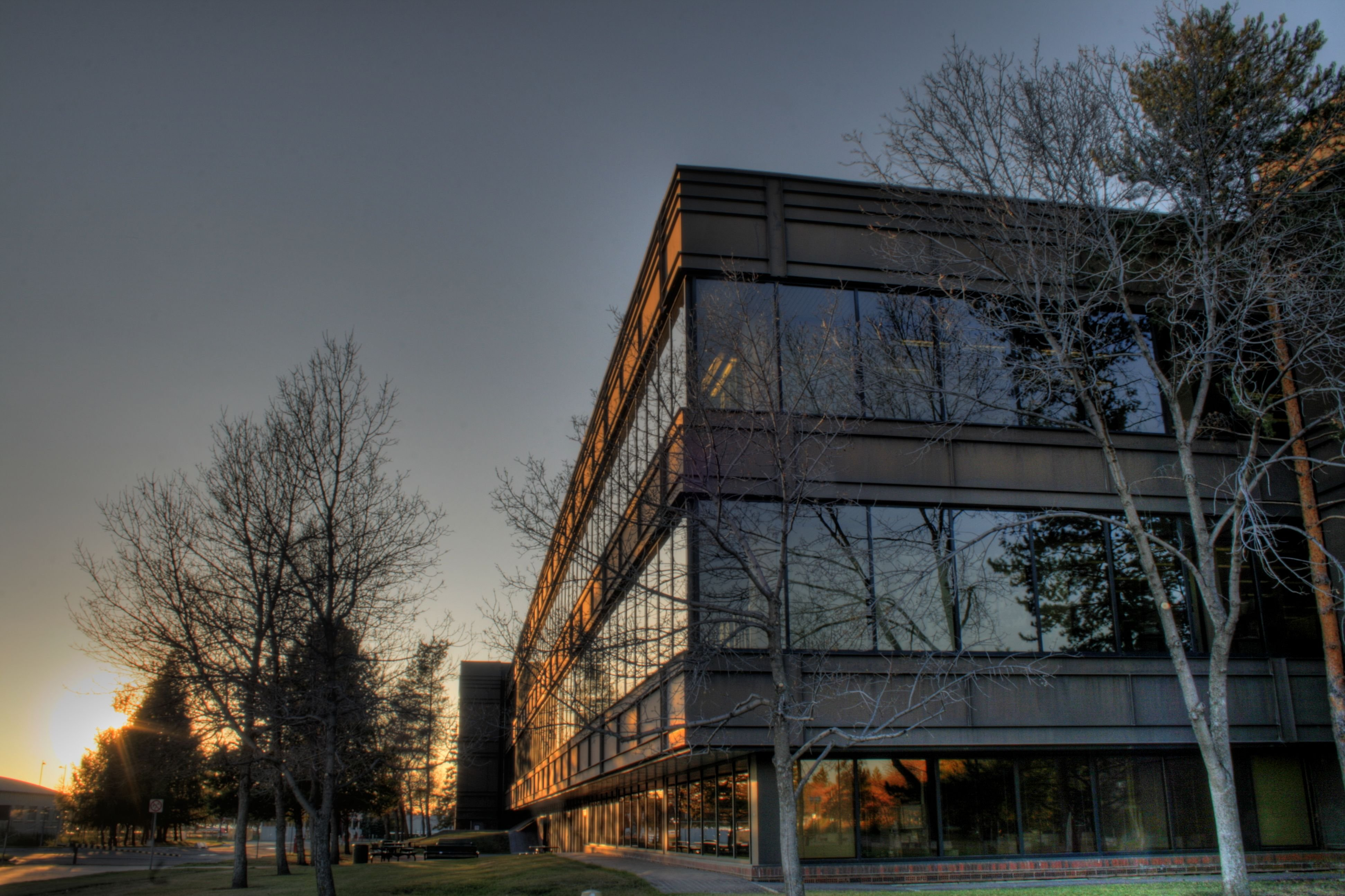 The Neil Crawford Centre, a group of government buildings in Edmonton, Alberta, Canada.